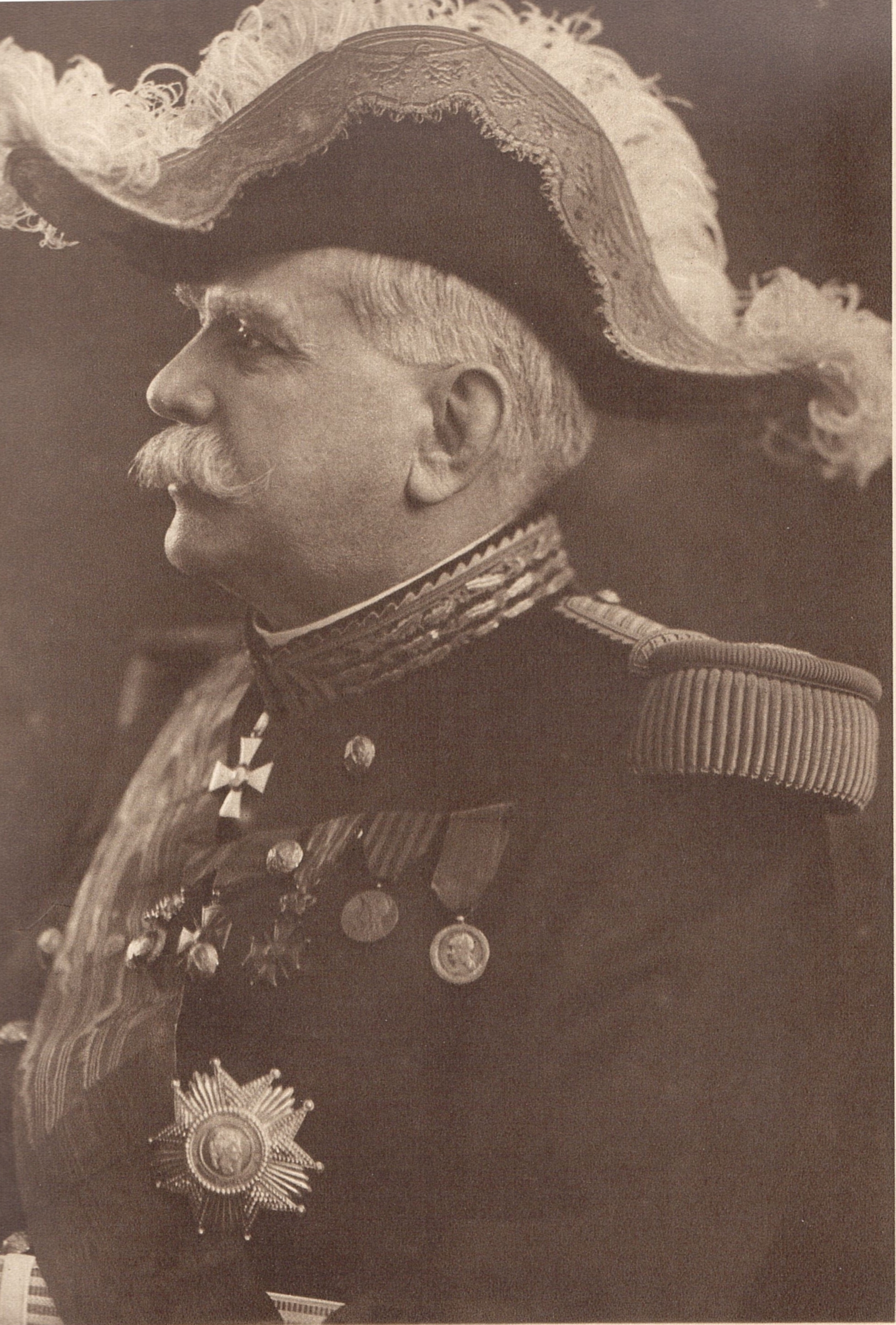 Joseph Joffre, Marshal of France, by R.Melcy, french photographer of the first quarter of the 20th century. From l' "Illustration", 1917. Scan